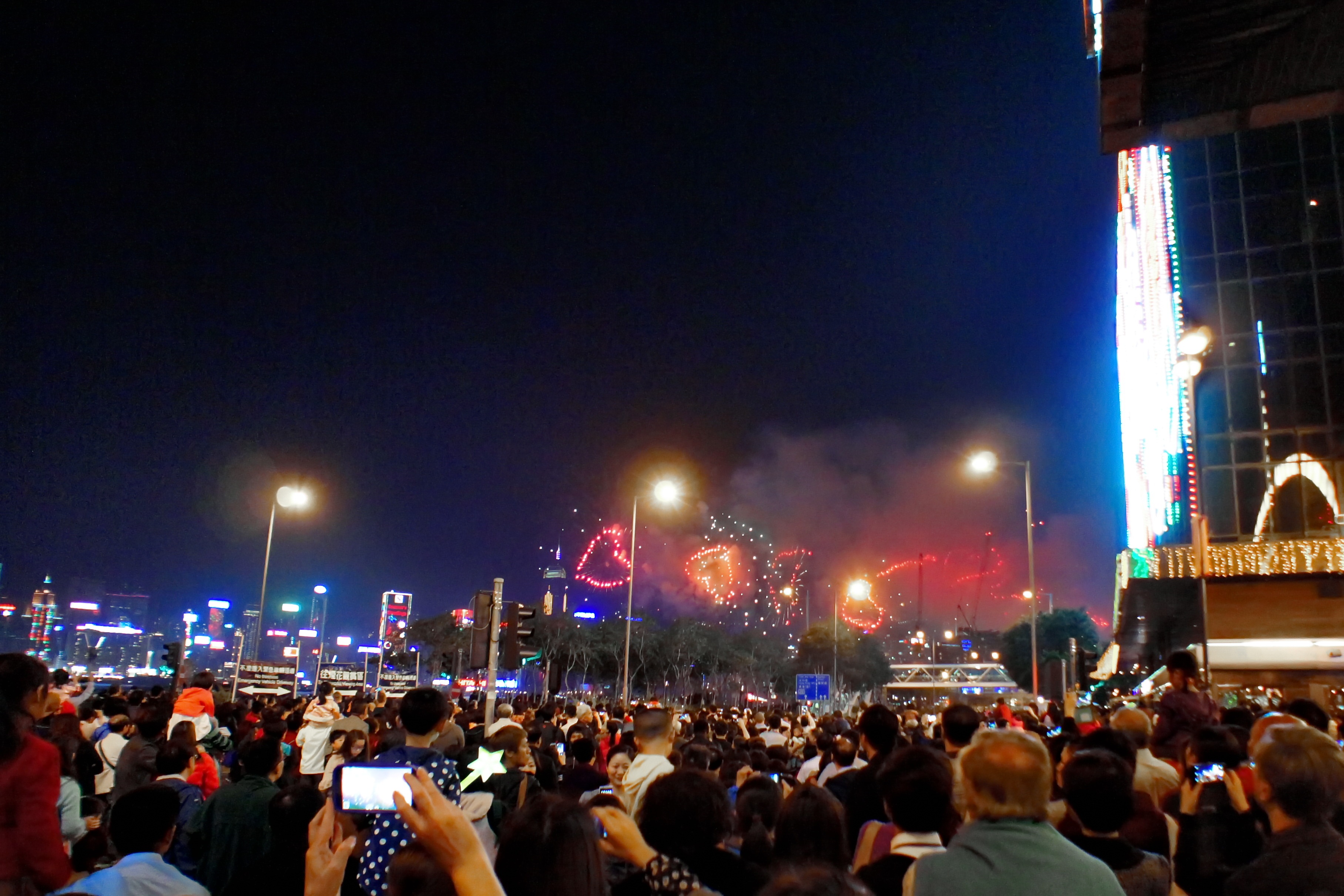 Lunar New Year Fireworks Display in Hong Kong (Feb 1, 2014)